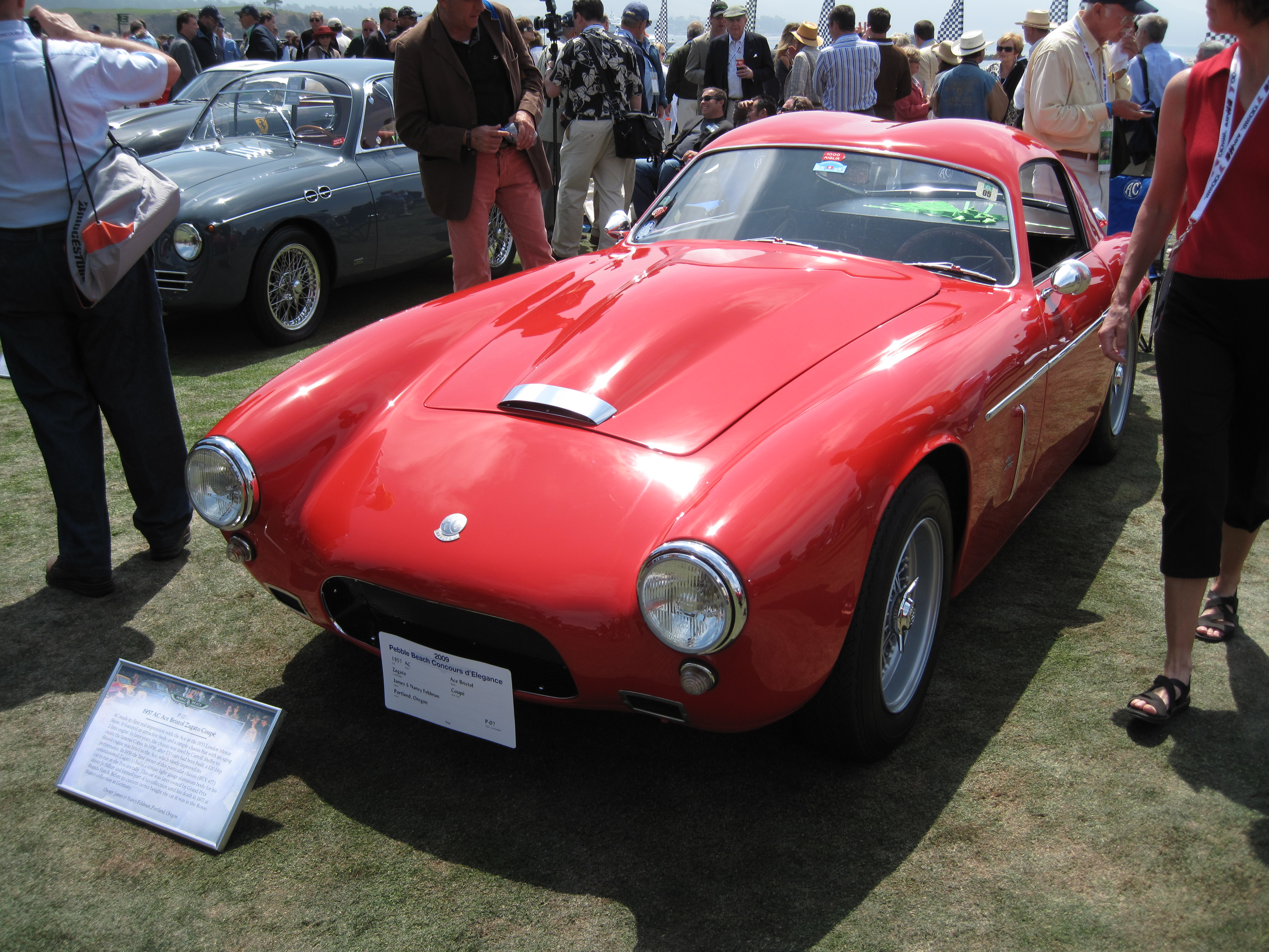 AC Ace Bristol Zagato at Pebble Beach 2009